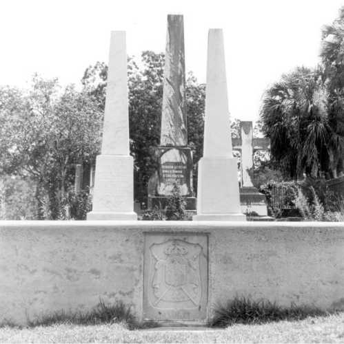 Digital image of the graves of Catherine Willis Gray and husband Local call number: Rck00028 Personal Author: Kerce, Red (Benjamin L.), 1911-1964. Title: [Prince and Princess Murat grave markers at St. John's Episcopal Church cemetery : Tallahassee, Florida] [graphic] Publication info: 19-- Physical descrip: 1 photoprint b&w 10 x 8 in. Series Title: (Reference collection)